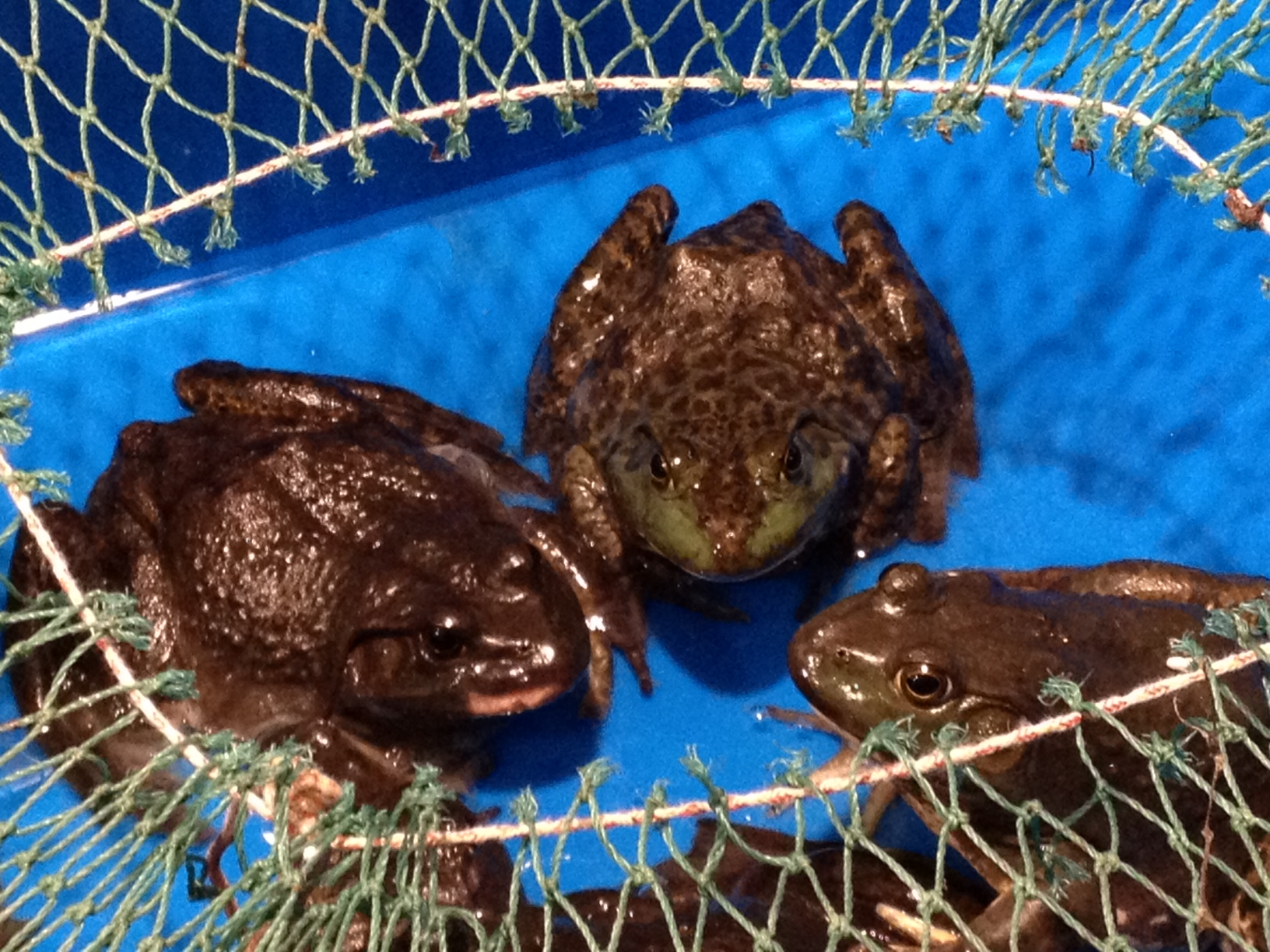 Frogs in supermarket in Shanghai